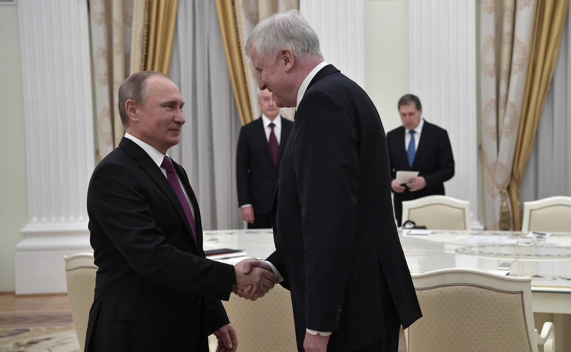 Meeting with Minister-President of Bavaria Horst Seehofer in Kremlin, Moscow